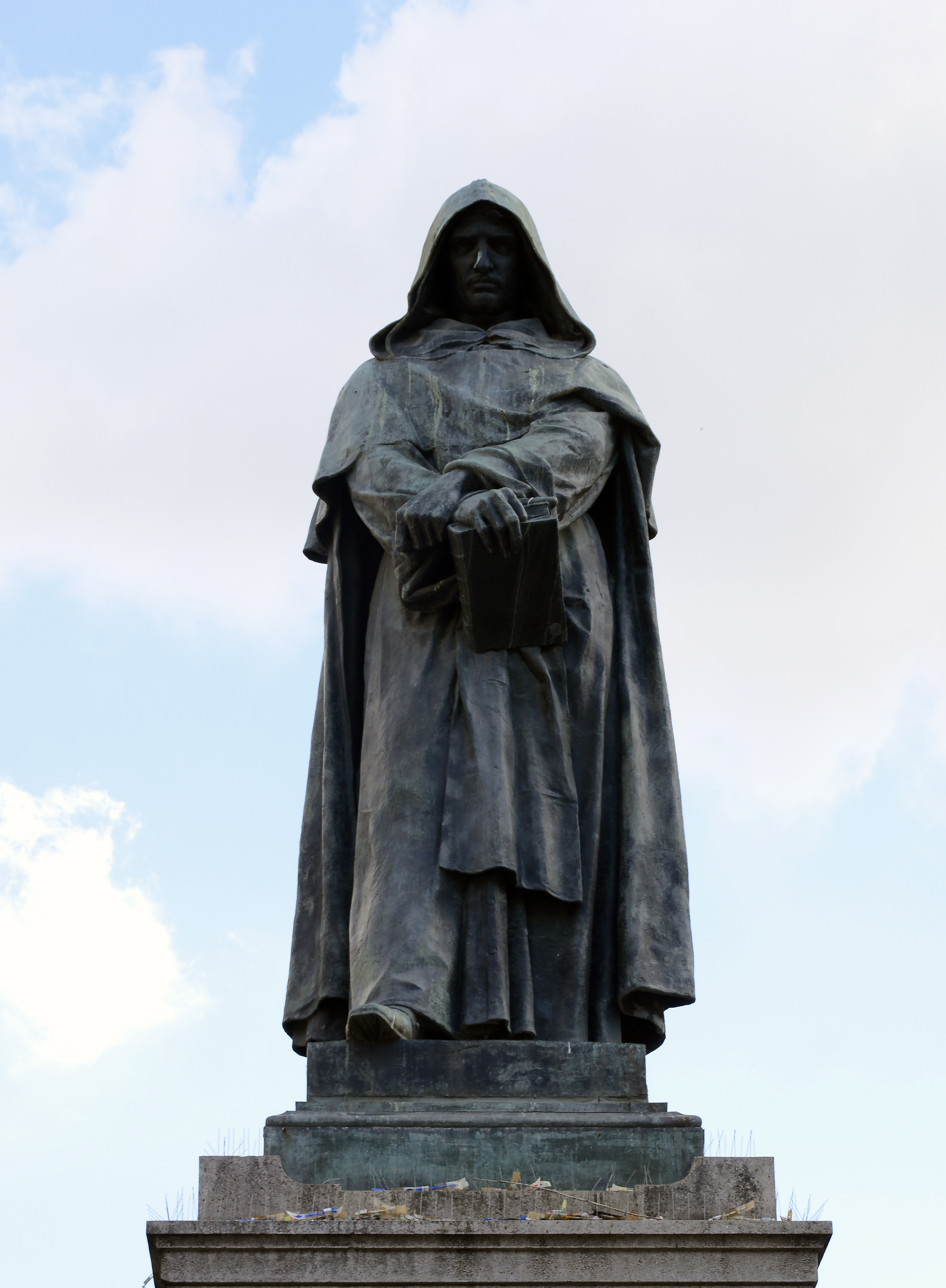 Bronze statue of Giordano Bruno by Ettore Ferrari , Campo de' Fiori, Rome